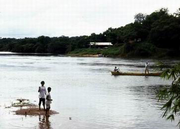 Madre de Dios River created by he:משתמש:בן הטבע